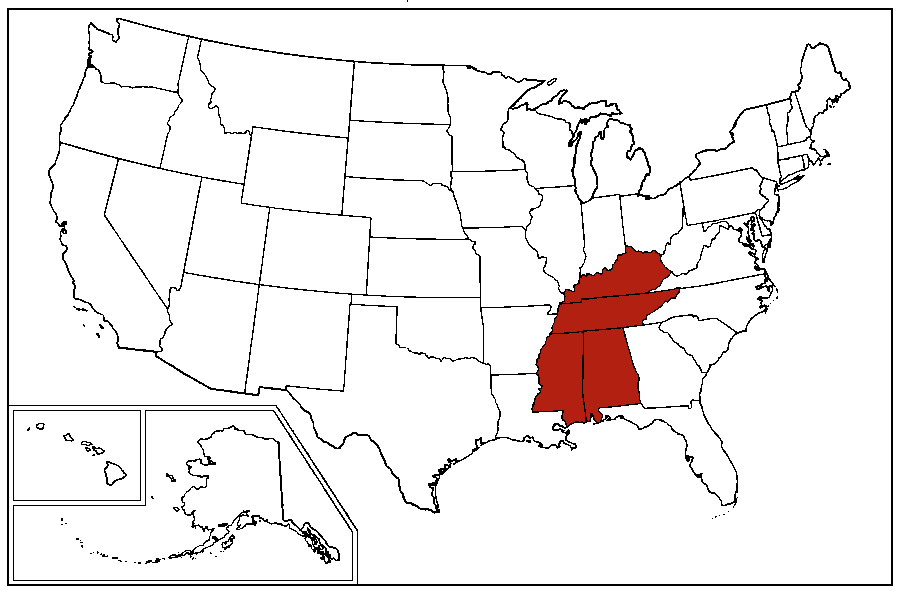 A map of the United States Census Bureau Region 3, Division 6, "East South Central", consisting of the states of Alabama, Kentucky, Mississippi, and Tennessee.